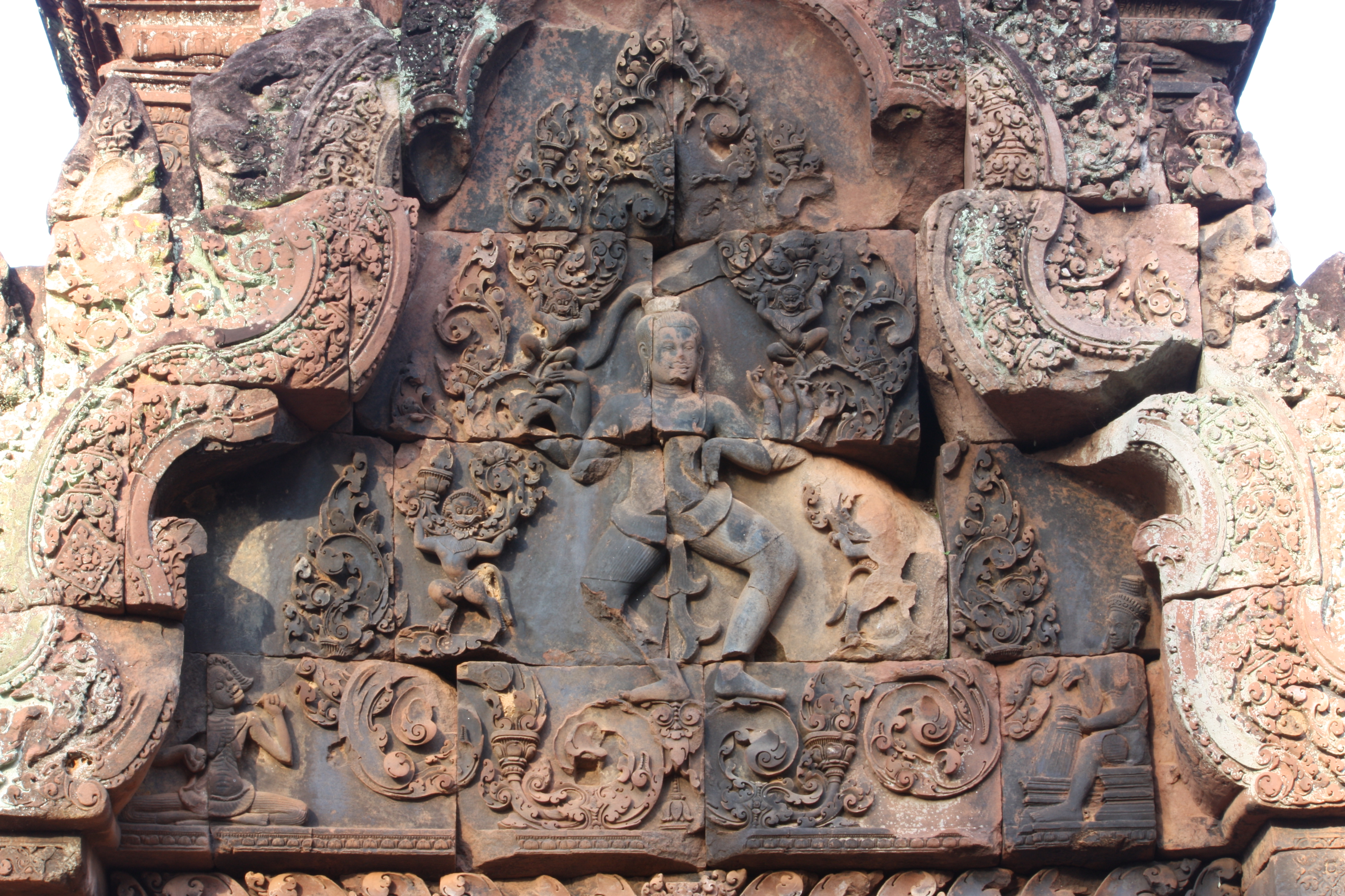 Banteay Srei - Śiva Nāṭarāja is depicted on the eastern gopura of the inner enclosure wall. Less rubbish version. Own work November 2010.